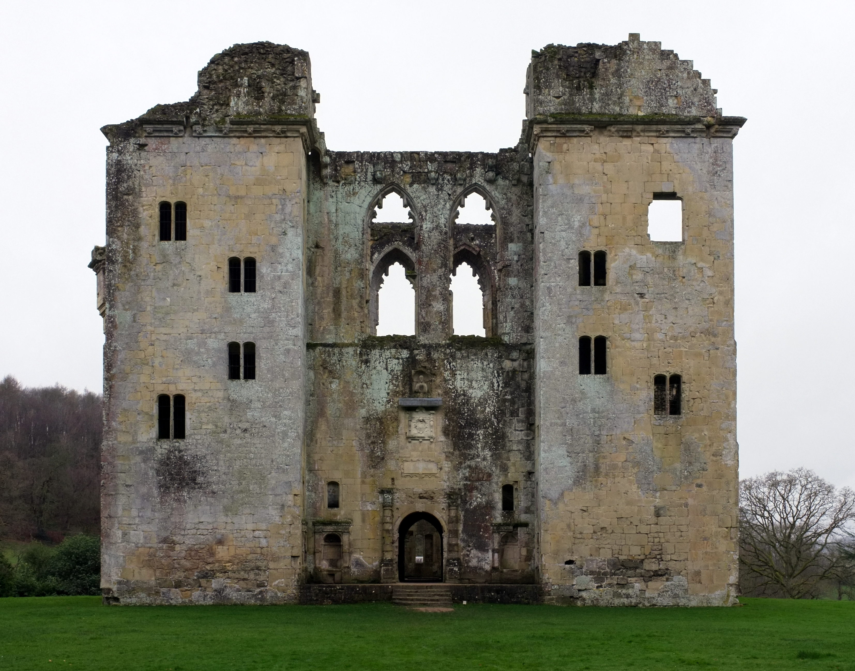 Old Wardour Castle